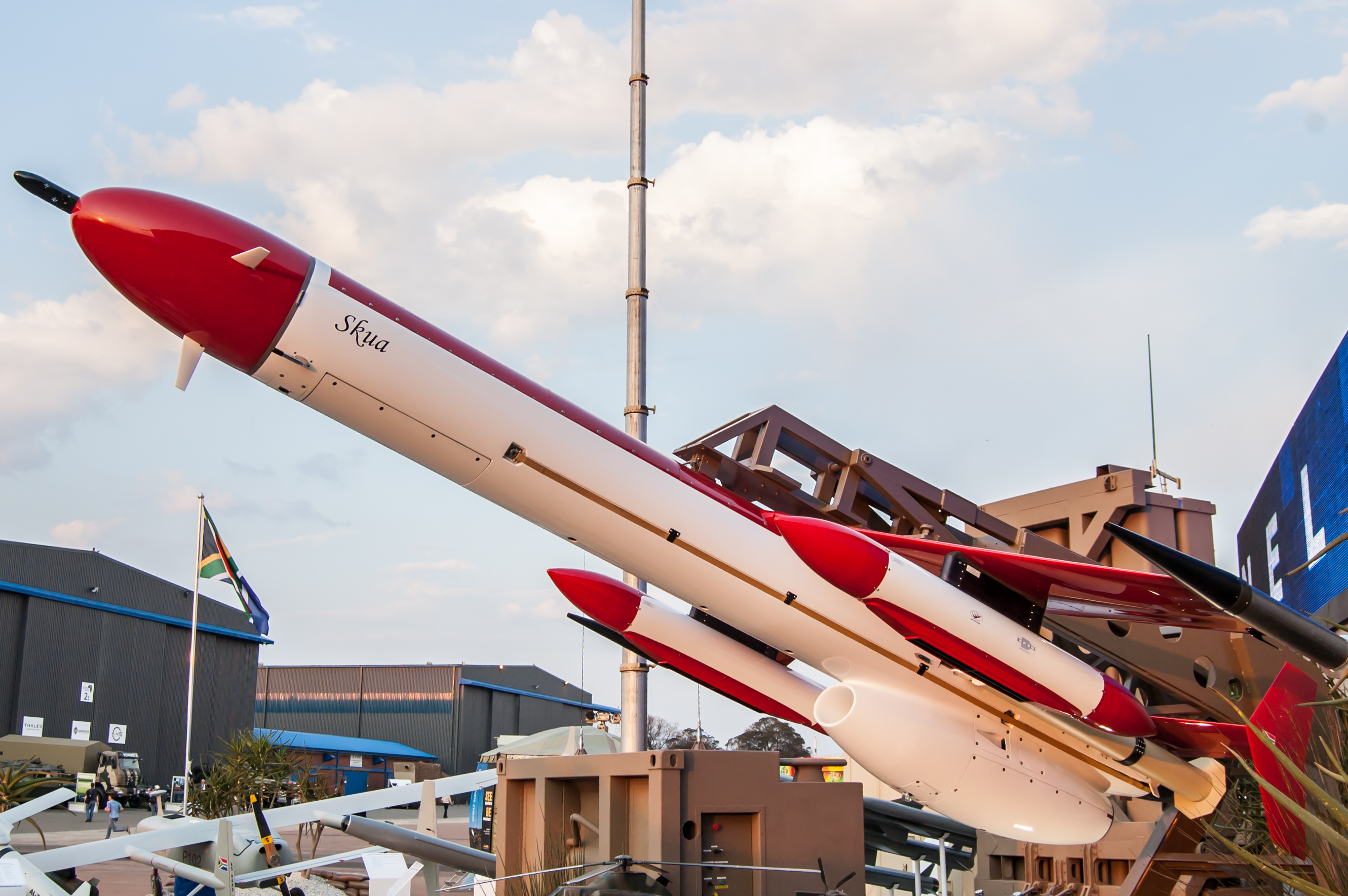 Denel Dynamics Skua target drone on display at Africa Aerospace and Defence 2012, held at AFB Waterkloof, Pretoria, South Africa.